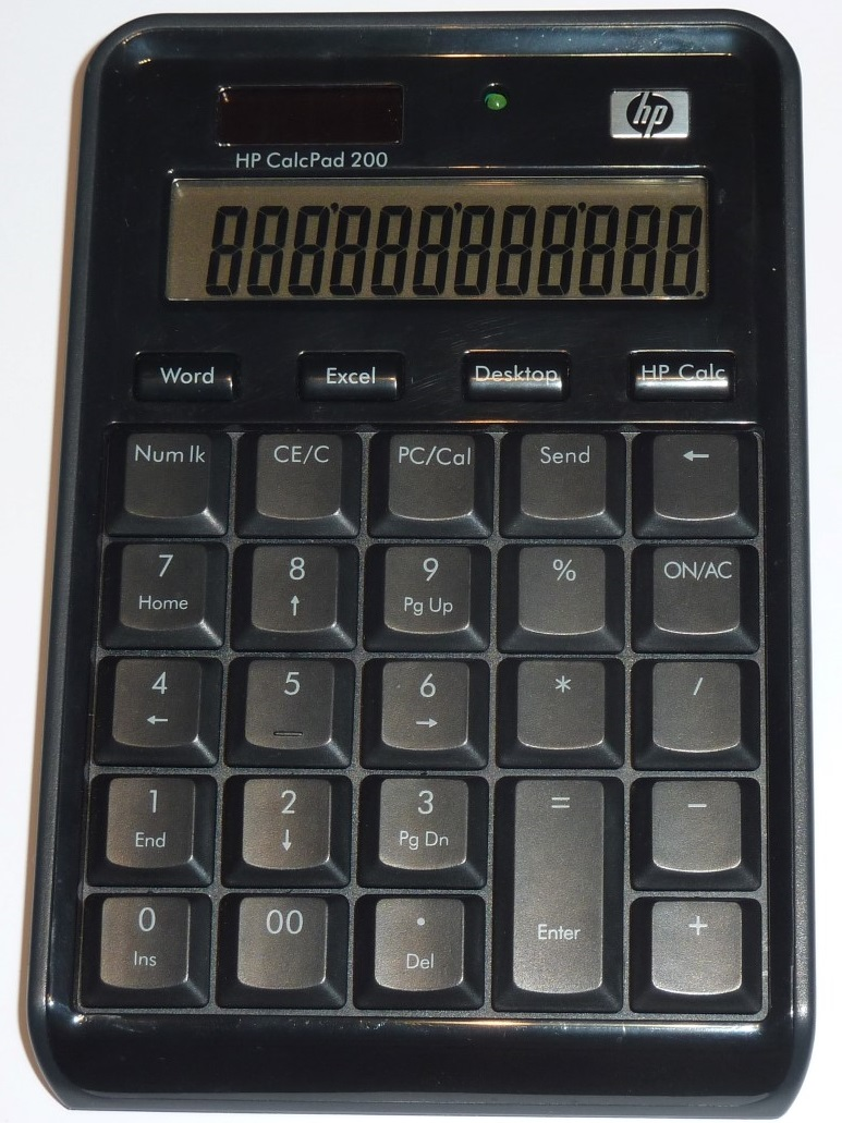 HP CalcPad 200